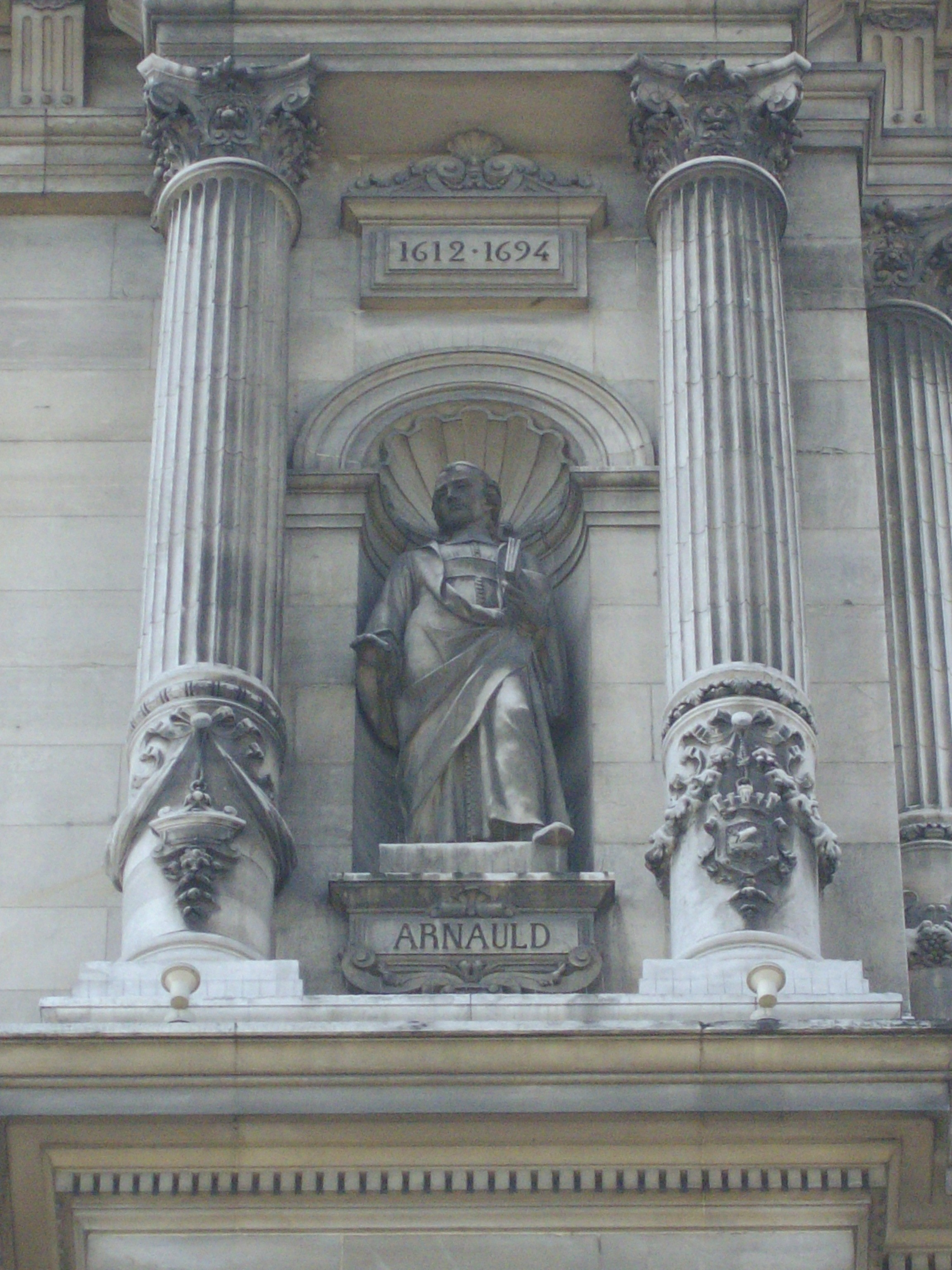 Statue of Antoine Arnauld, City Hall in Paris, France